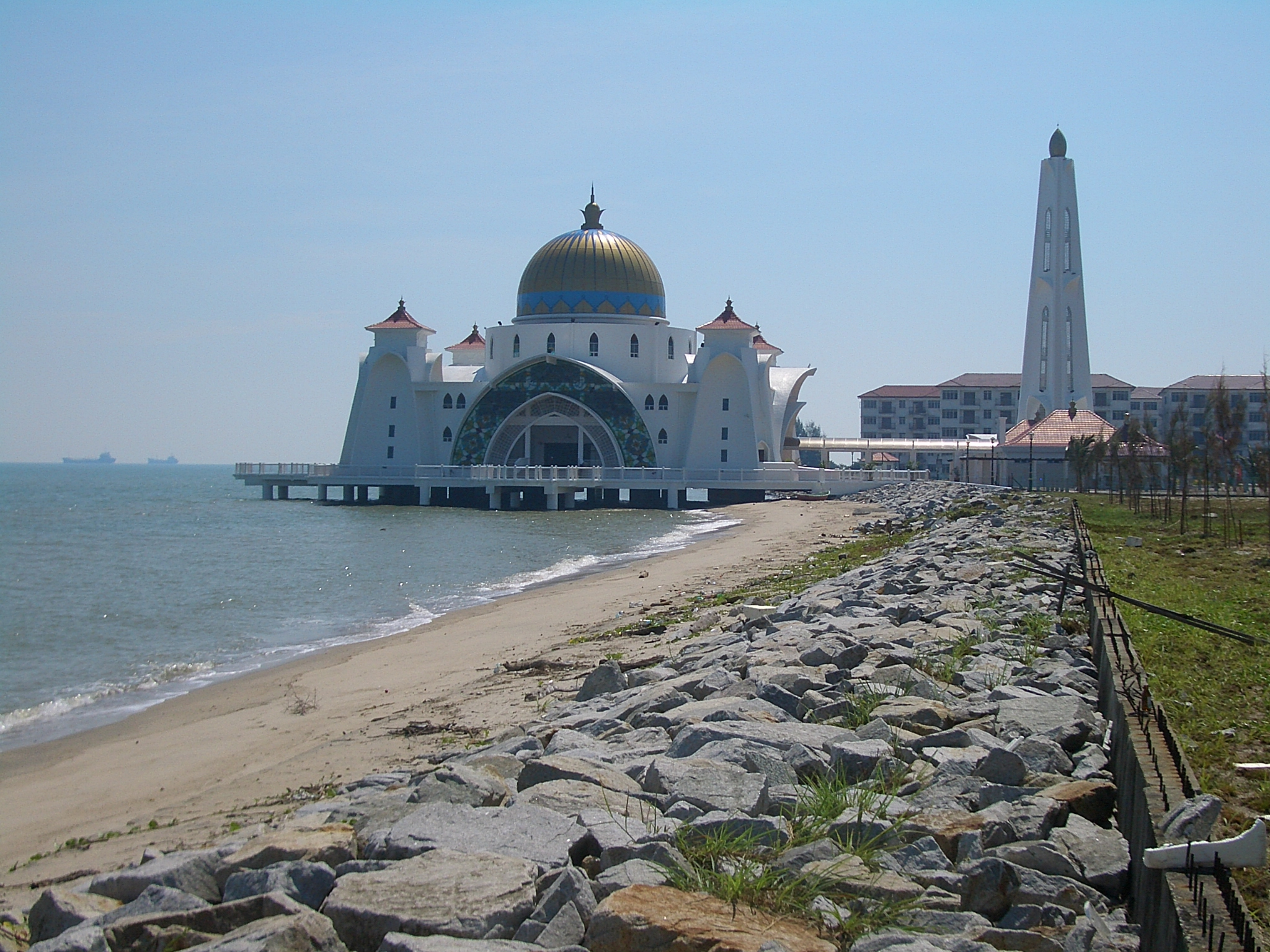 The Selat Melaka ("Malacca Strait") mosque, built on the beach on Palau Melaka.